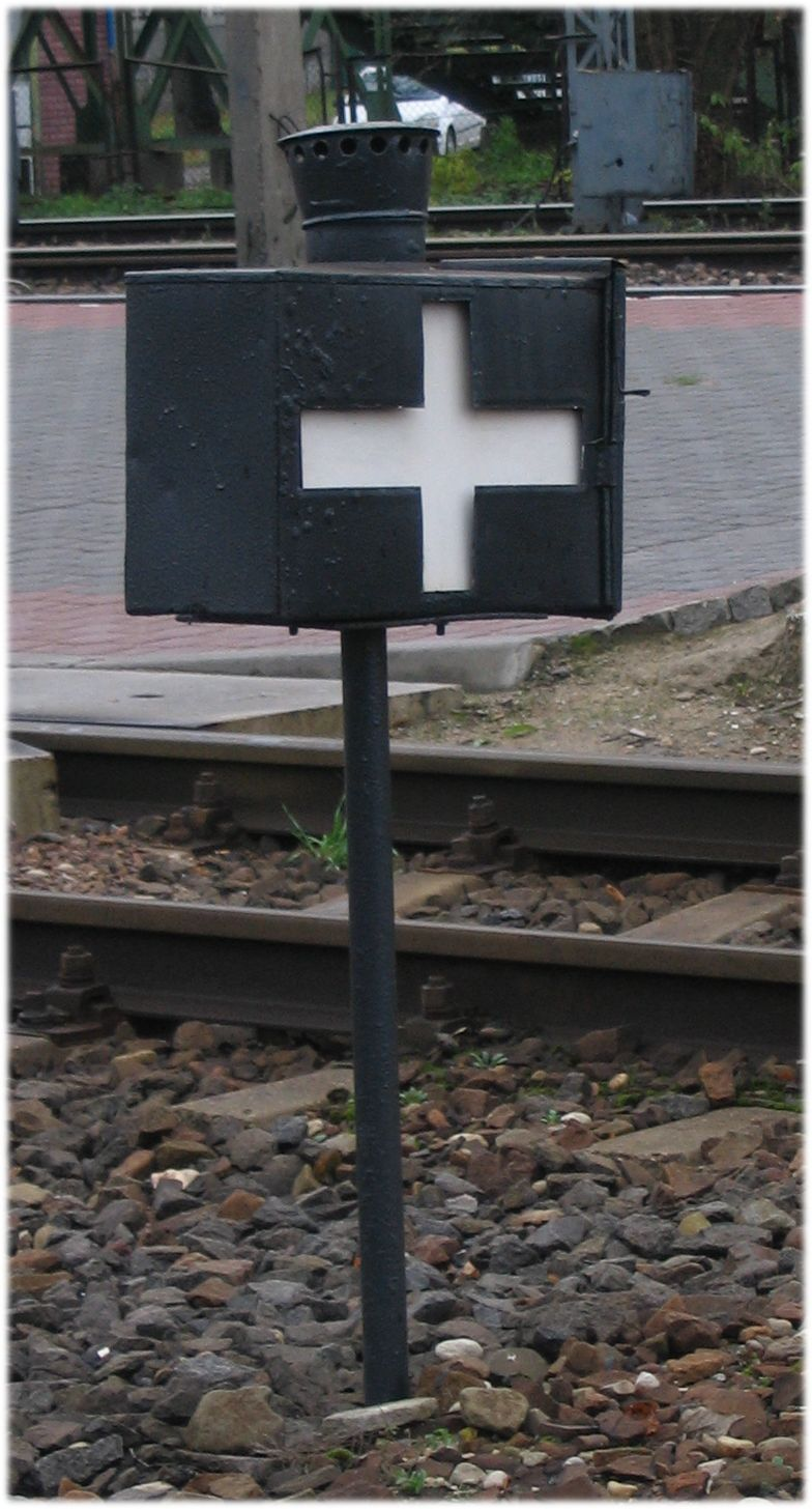 Polish railway sign W4 in area of Białystok station